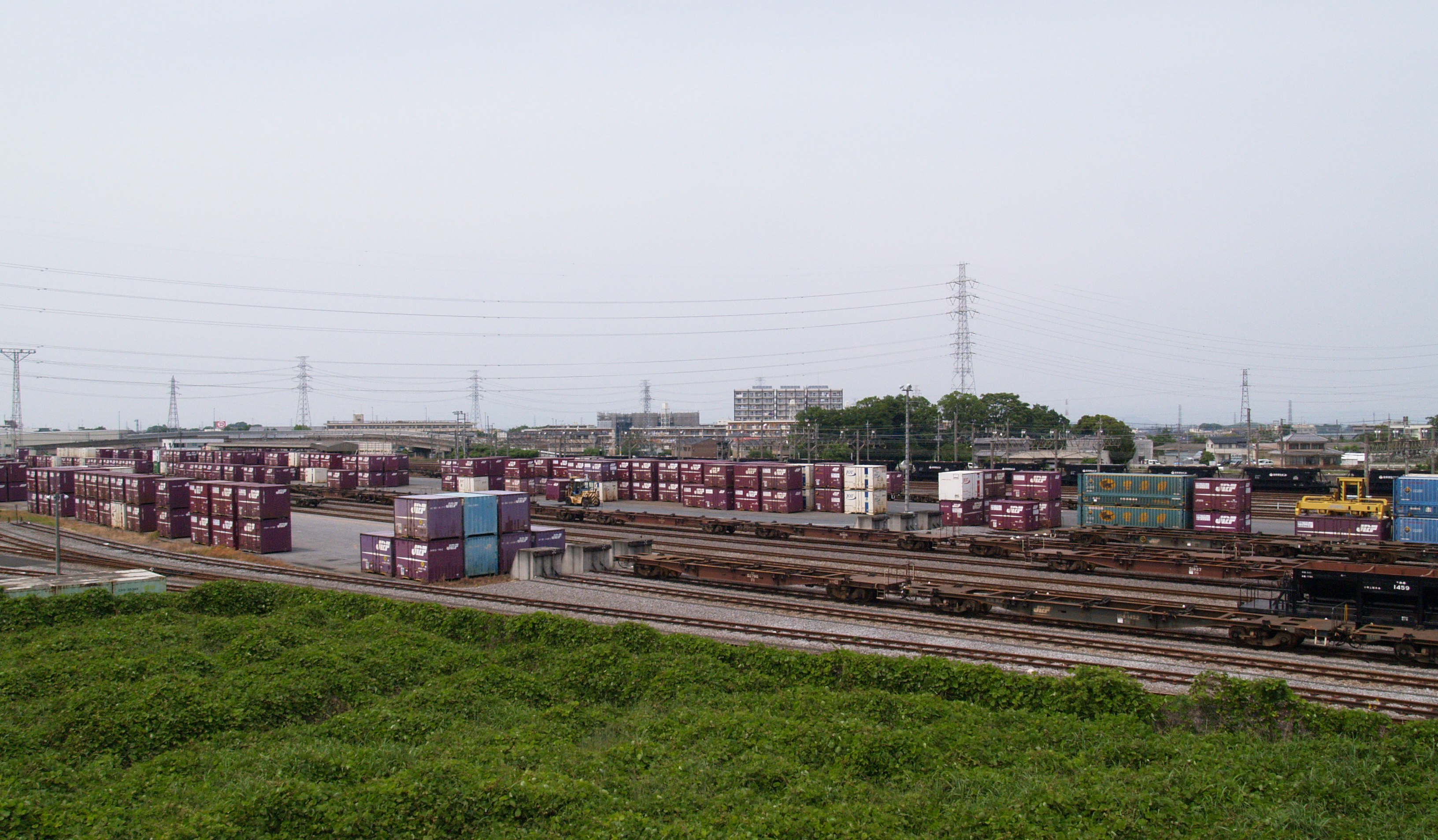 Kumagaya Freight Terminal